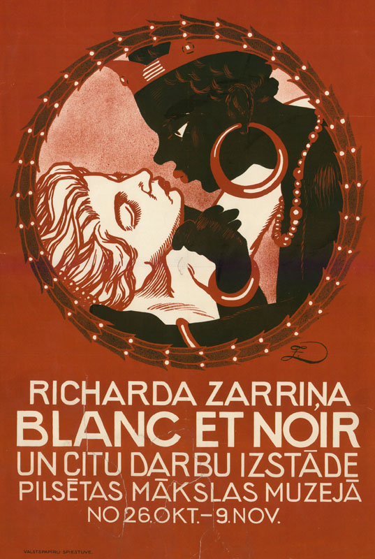 Poster by Rihards Zariņš (1869-1939)